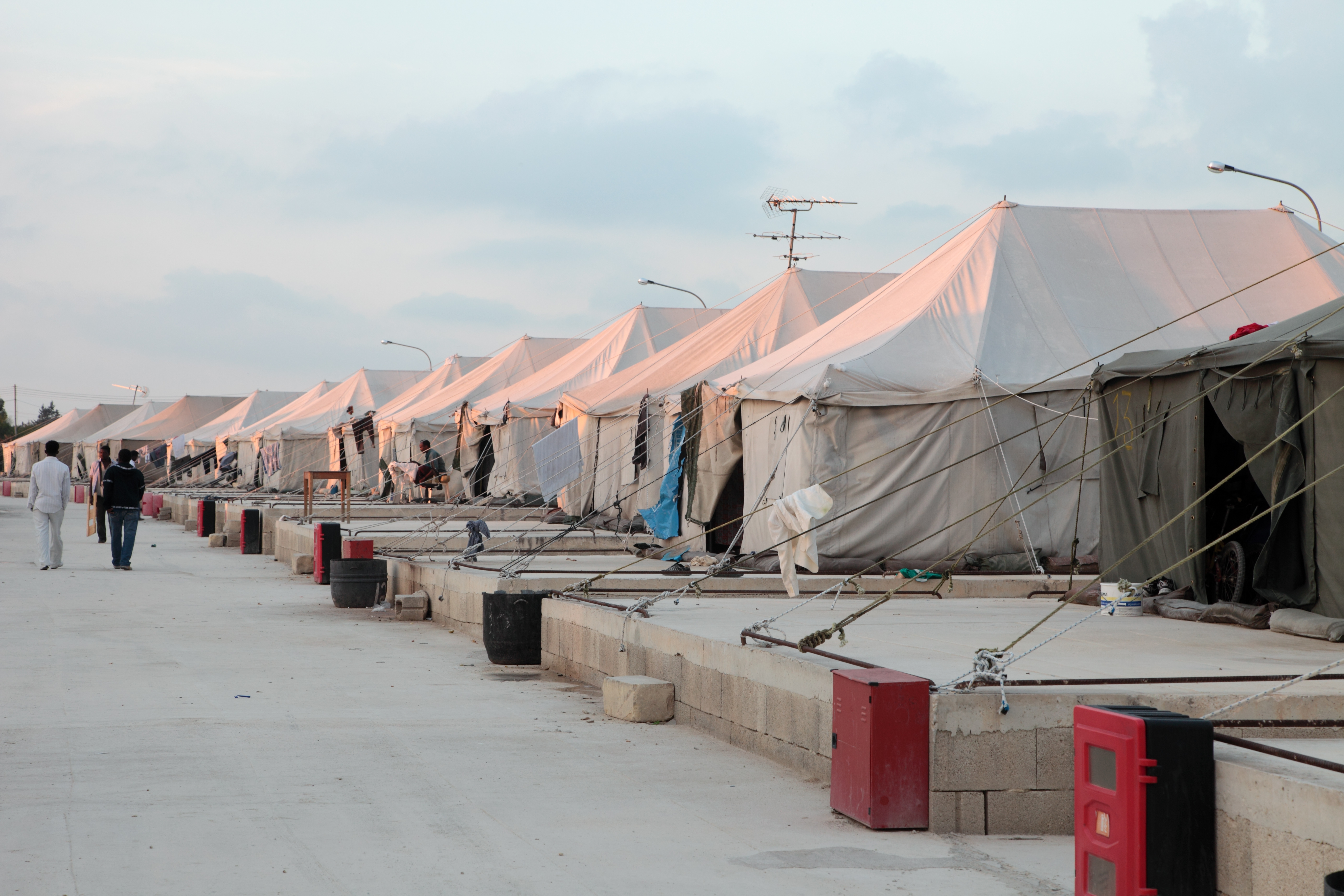 Malta, Hal Far: tent village, open centre for refugees (mostly boatpeople from Africa)